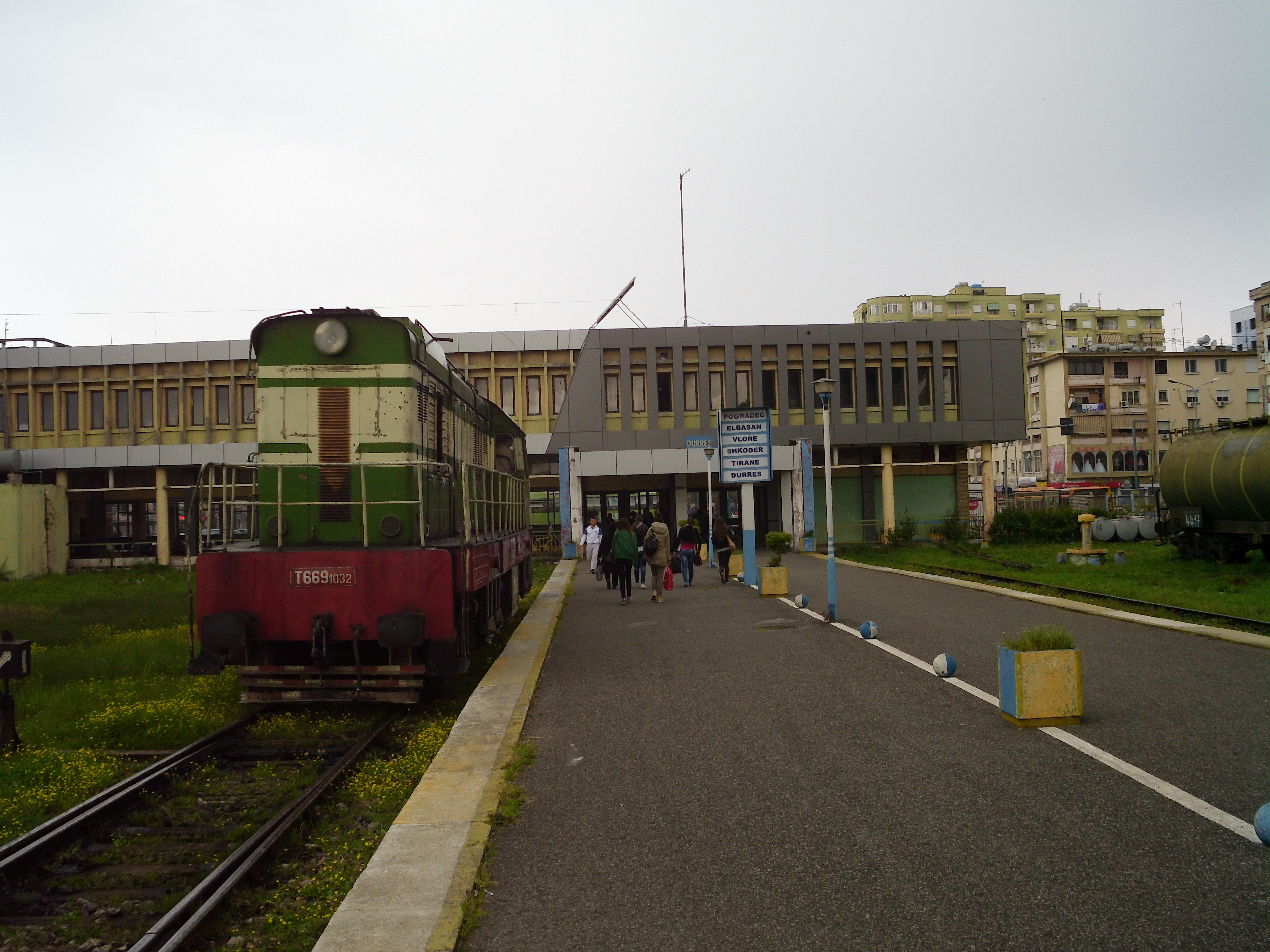 ČKD T-669 diesel locomotive T669.1032 at a station in Durrës, Albania.